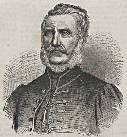 Portrait of the soldier Károly Kiss